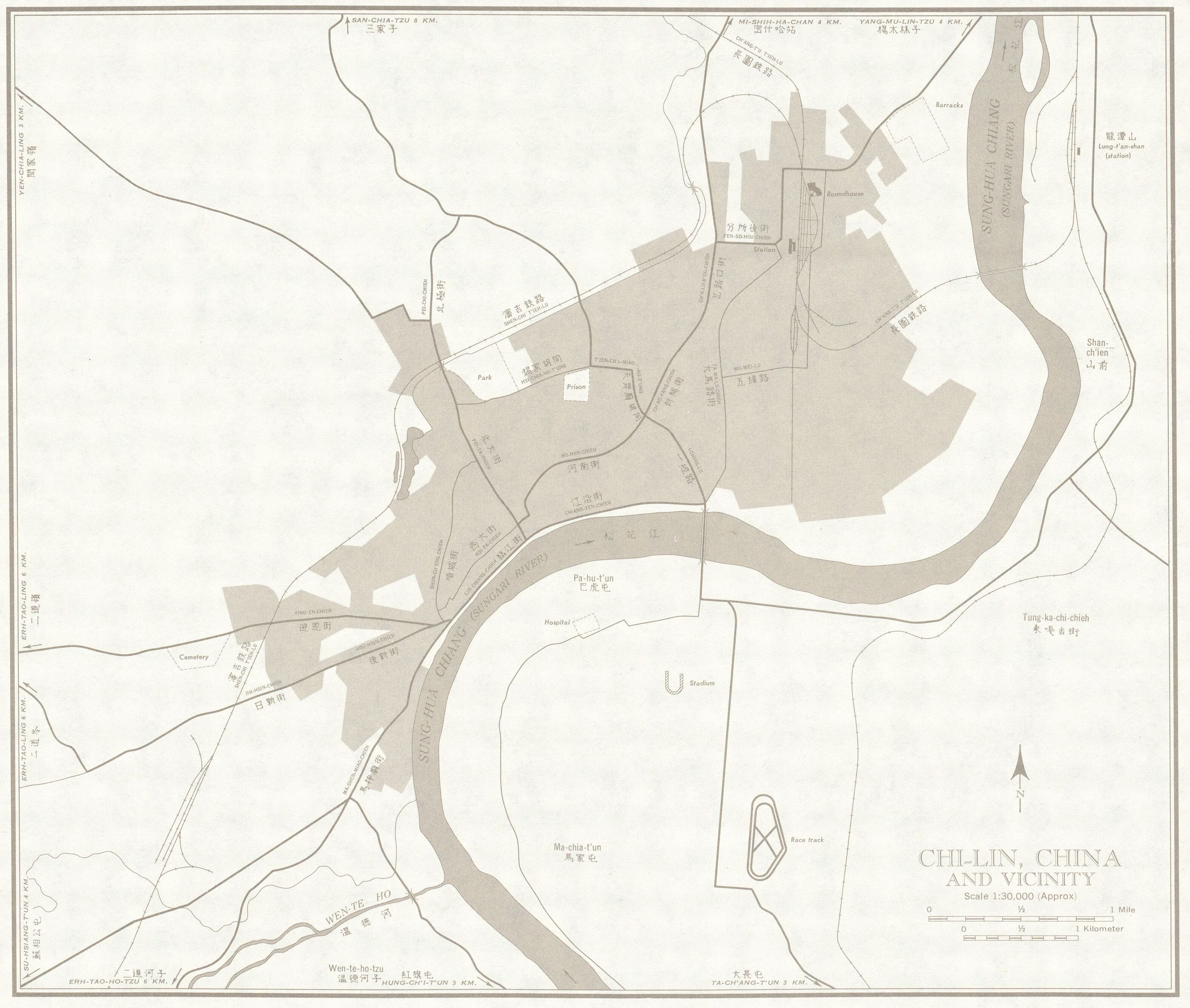 Manchuria AMS Topographic Maps